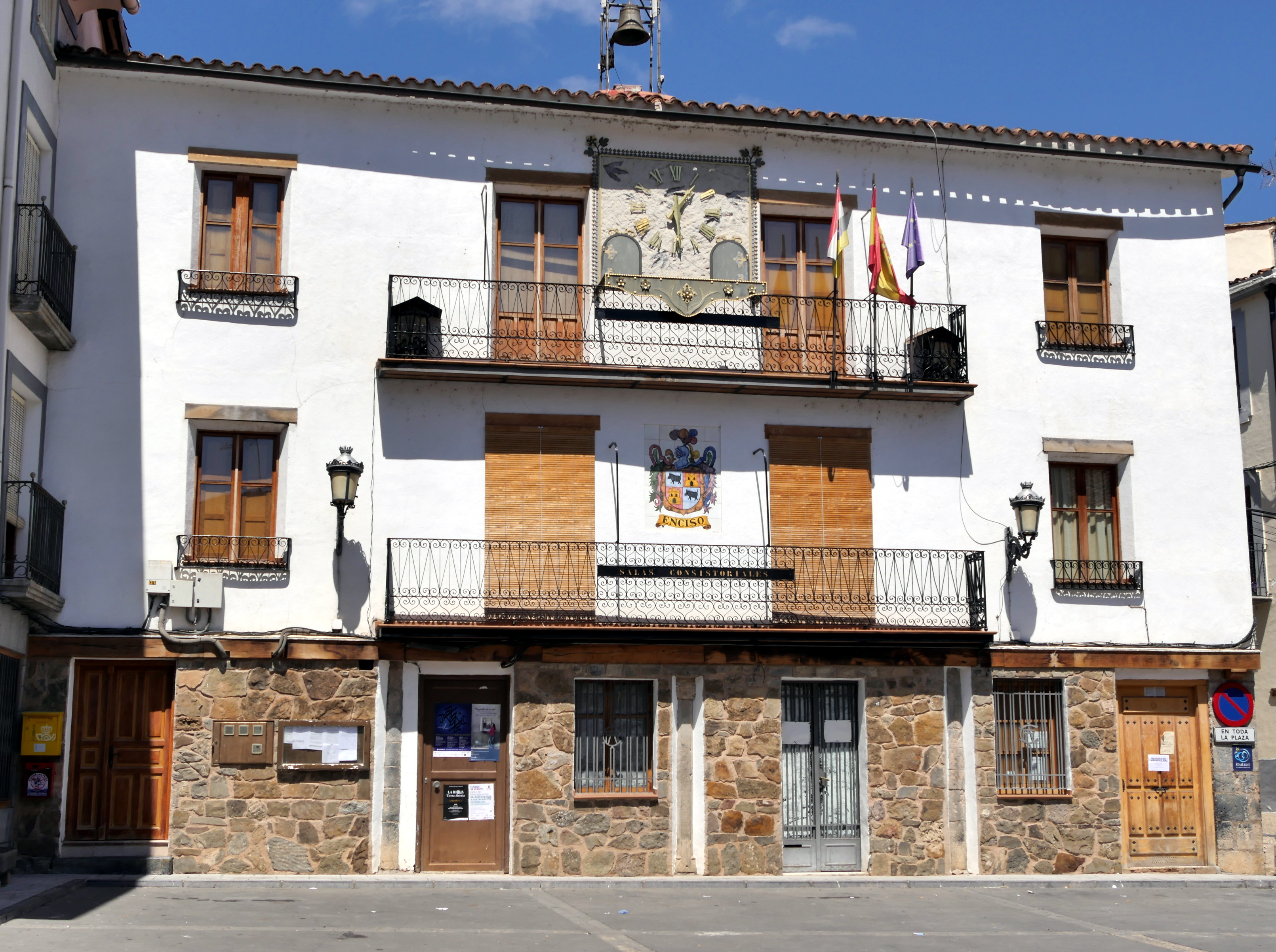 Town hall of Enciso, La Rioja, Spain.